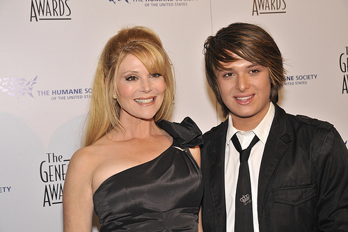 Audrey Landers and Daniel Landers at the Beverly Hilton Hotel, March 20, 2010 at the 24th Annual Genesis Awards.